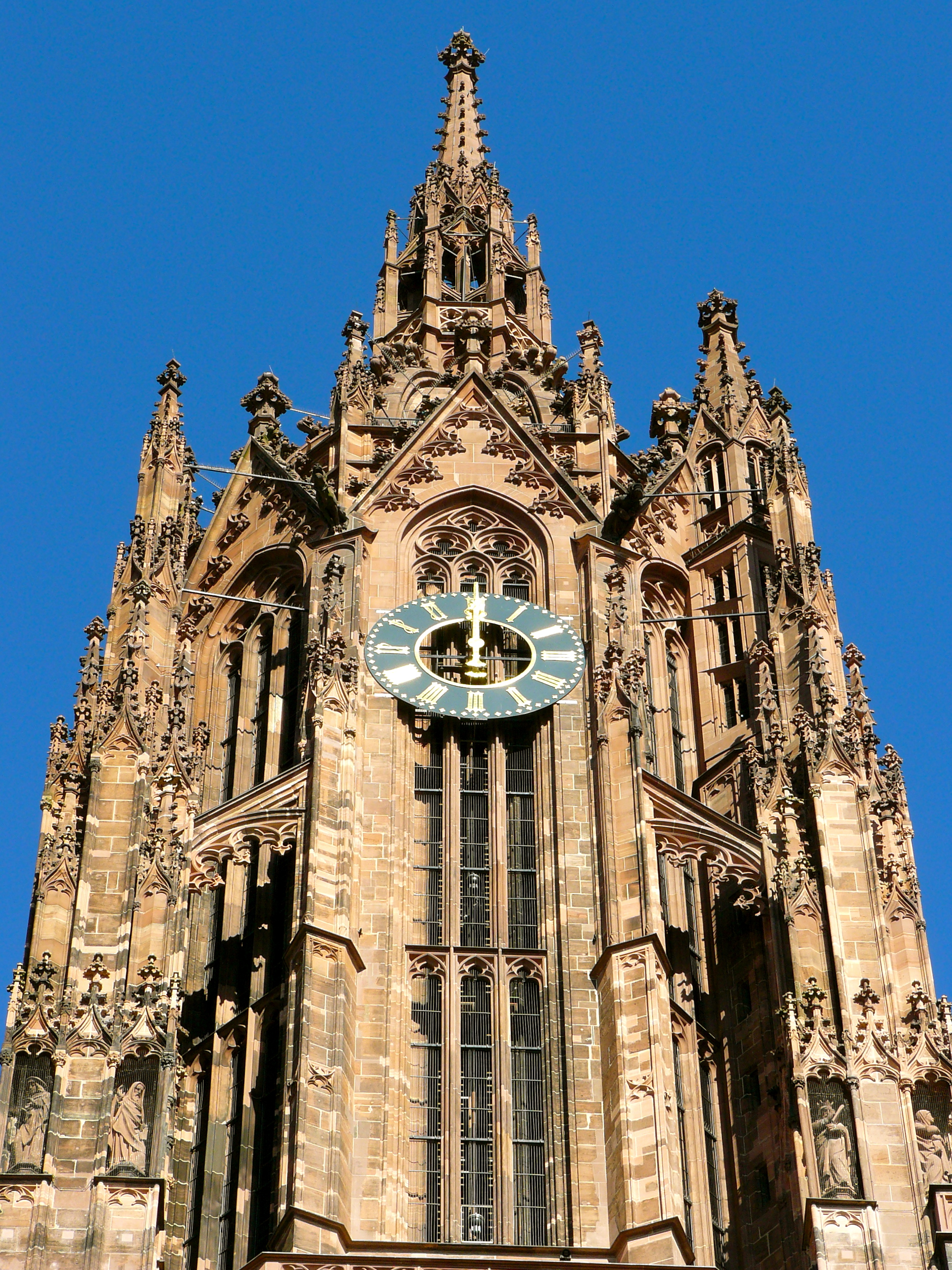 Steeple of St. Bartholomew in Frankfurt, Hesse, Germany